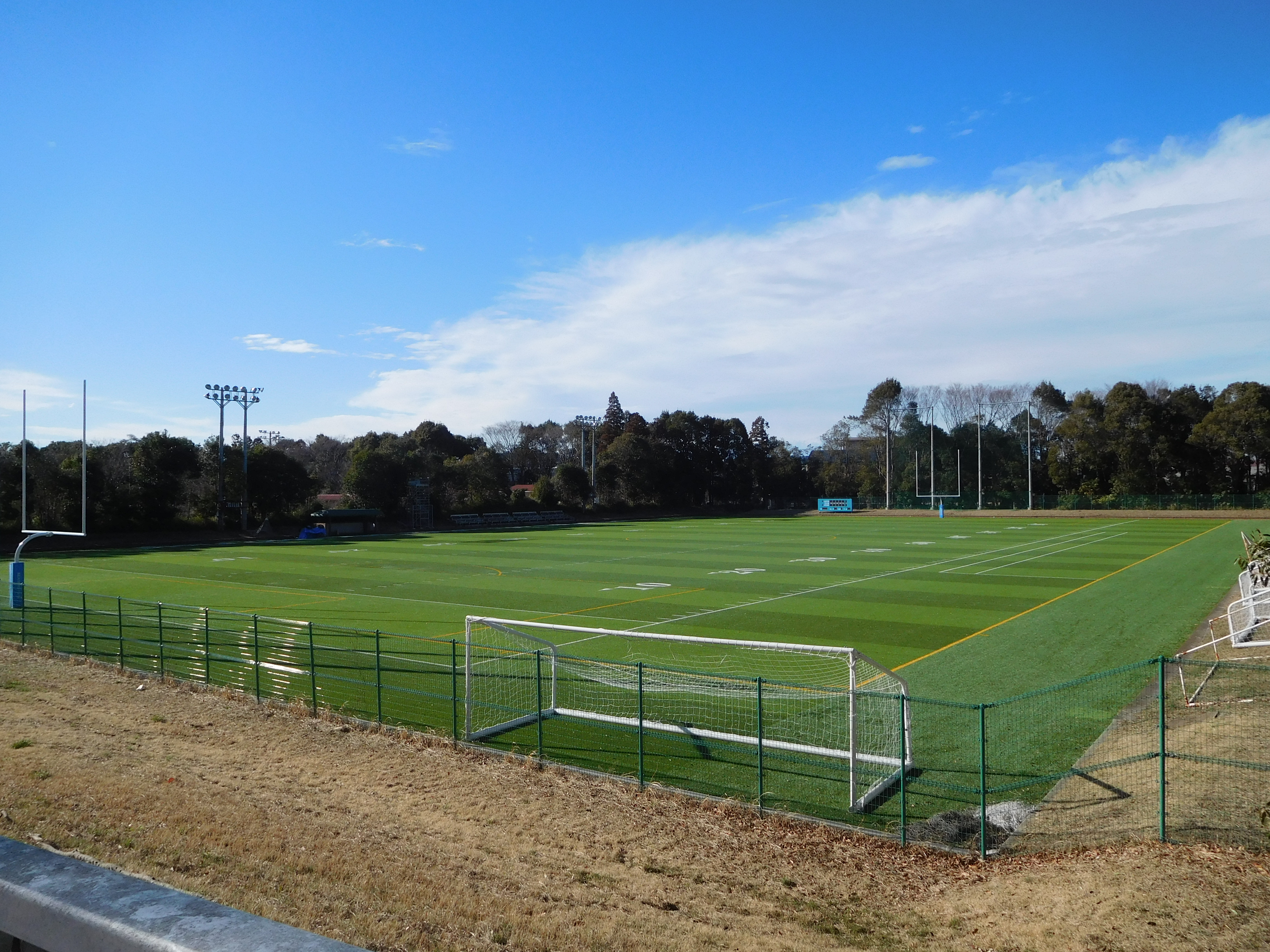 This is 1st Soccer Field, University of Tsukuba, Ibaraki, Japan.